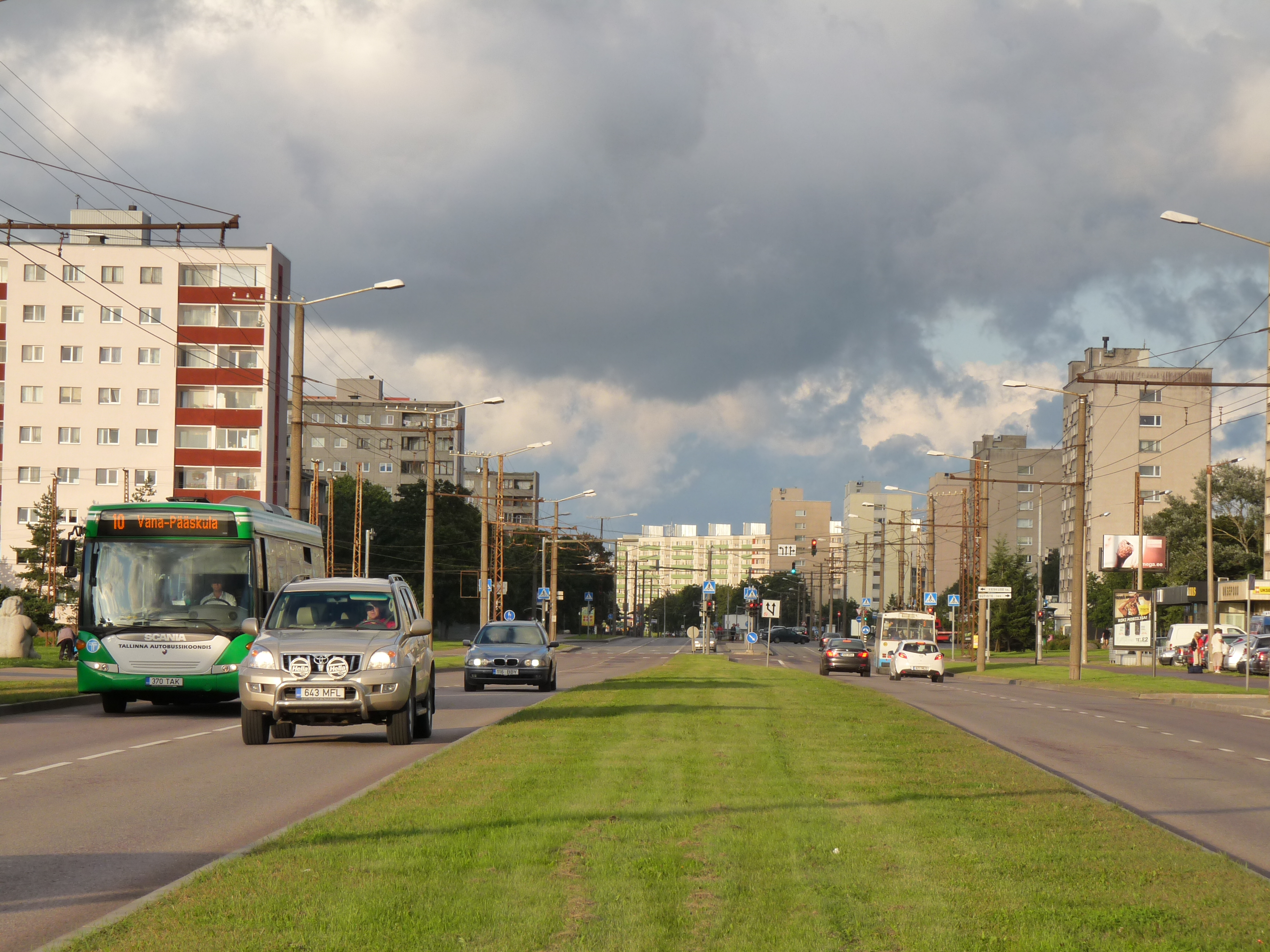 Sõpruse avenue in Mustamäe